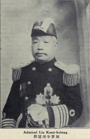 Liu Guanxiong, Ziying (1861 - 1927)